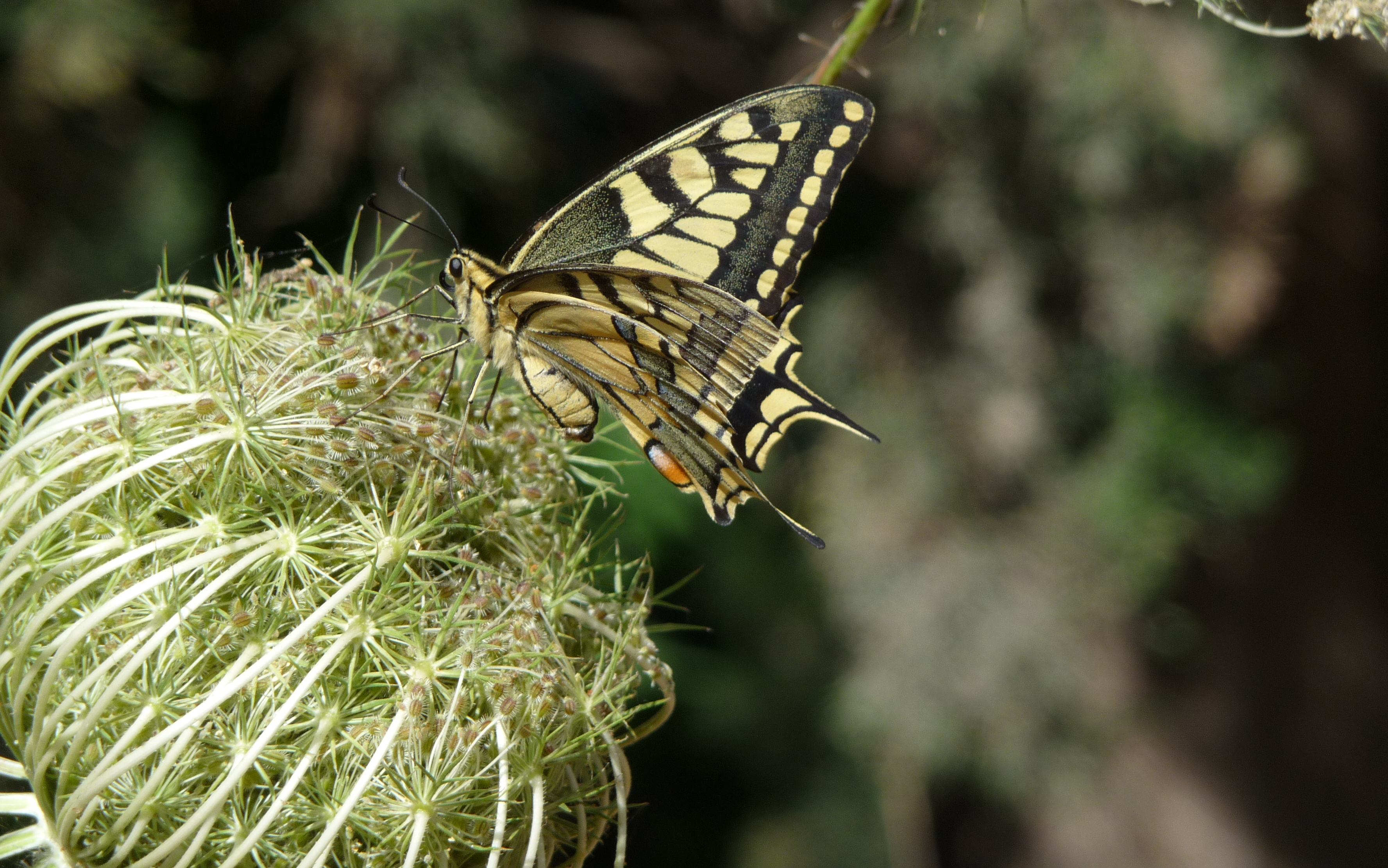 Animals of Israel